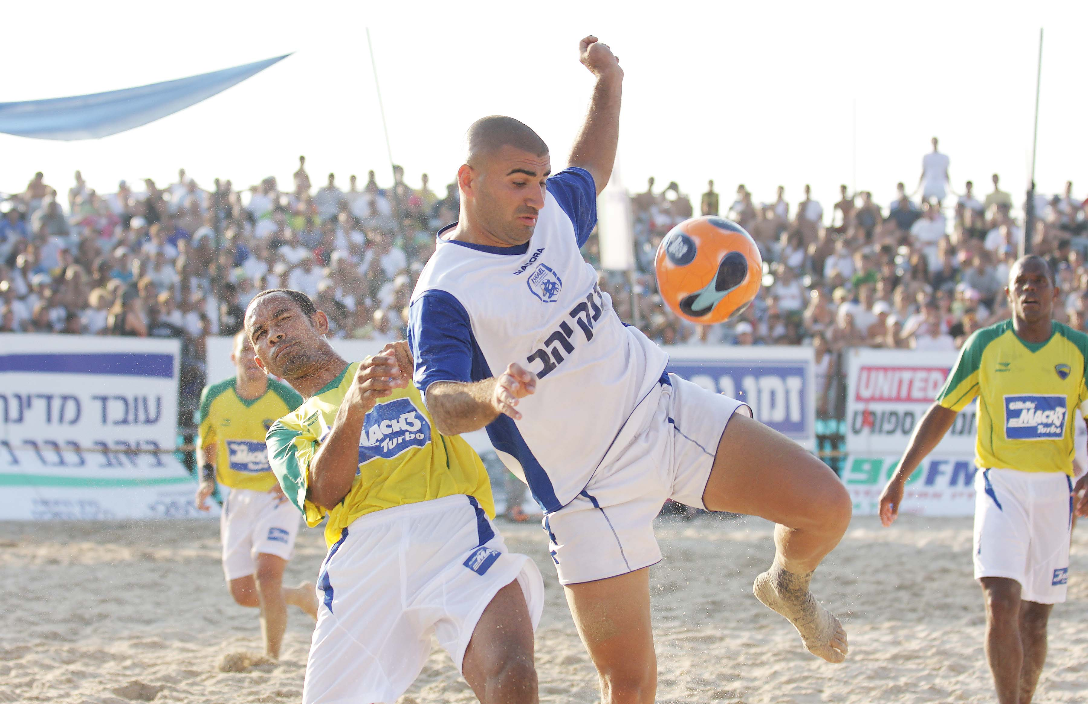 Photo from the friendly match (called the Solidarity Cup) between the Israeli and the Brazilian beach soccer teams, that occured on 11 July 2008, at the Poleg beach in Netanya. The game was played to note 60 years of Israeli independence.